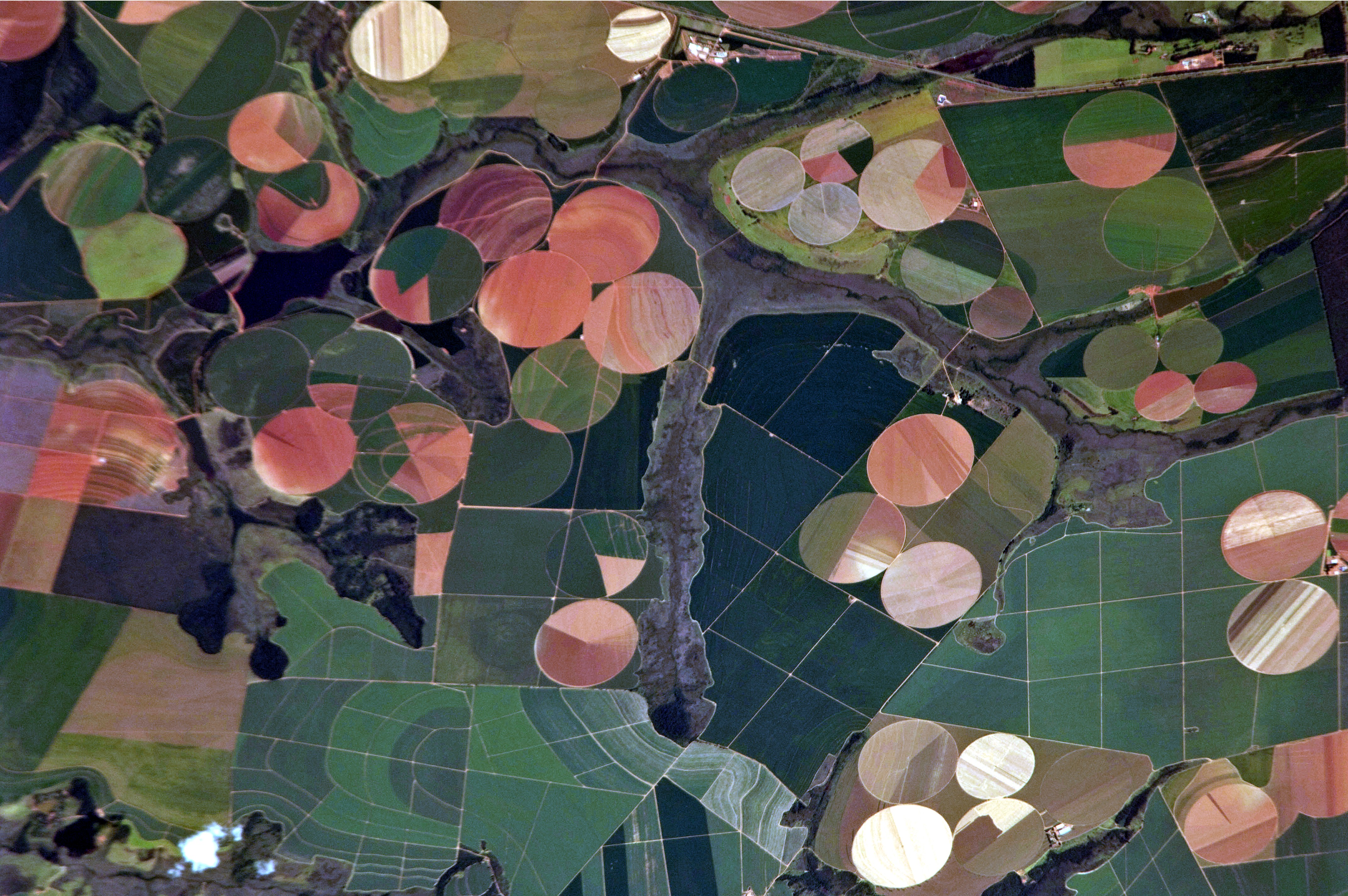 This astronaut photograph illustrates the diverse agricultural landscape in the western part of Minas Gerais state in Brazil. The fields in this image are located south-west of the city of Perdizes, which means “partridges” in Portuguese. A mix of regularly-gridded polygonal fields and circular centre-pivot fields marks the human use of the region. Small streams (and their adjacent floodplains) of the Araguari River extend like fingers throughout the landscape. – The visual diversity of the field forms is matched by the variety of crops: sunflowers, wheat, potatoes, coffee, rice, soybeans, and corn are among the products of the region. While the Northern Hemisphere is still in the grip of winter, crops are growing in the Southern Hemisphere, as indicated by the many green fields. Fallow fields—not in active agricultural use—display the violet, reddish, and light tan soils common to this part of Brazil. Darker soils are often rich in iron and aluminum oxides, and are typical of highly weathered soil that forms in hot, humid climates.